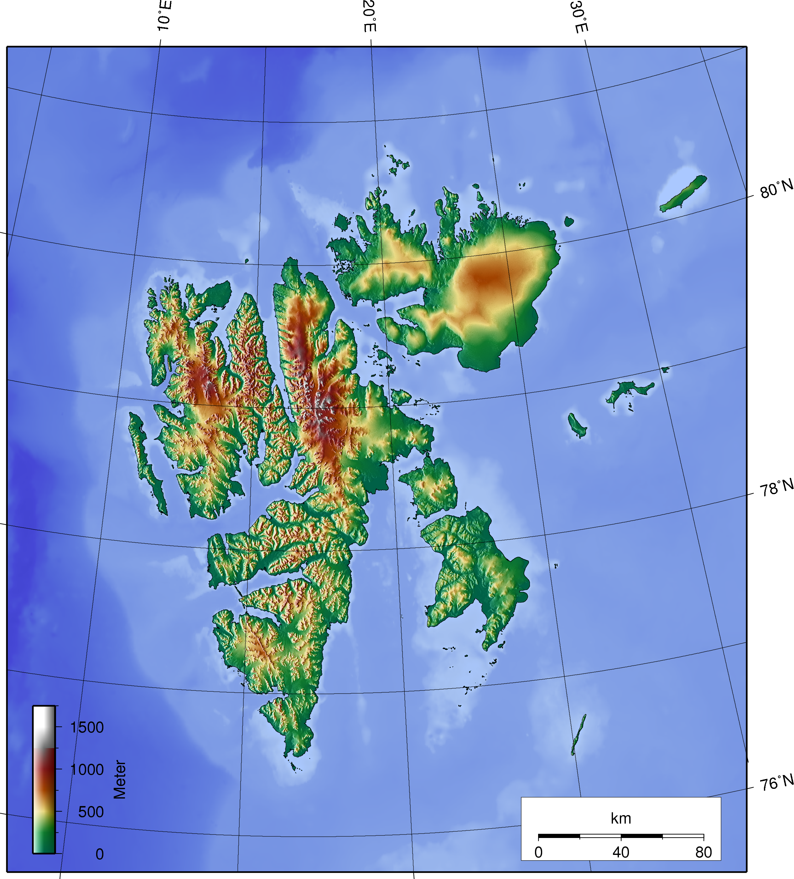 Map of Svalbard, with topography and bathymetry